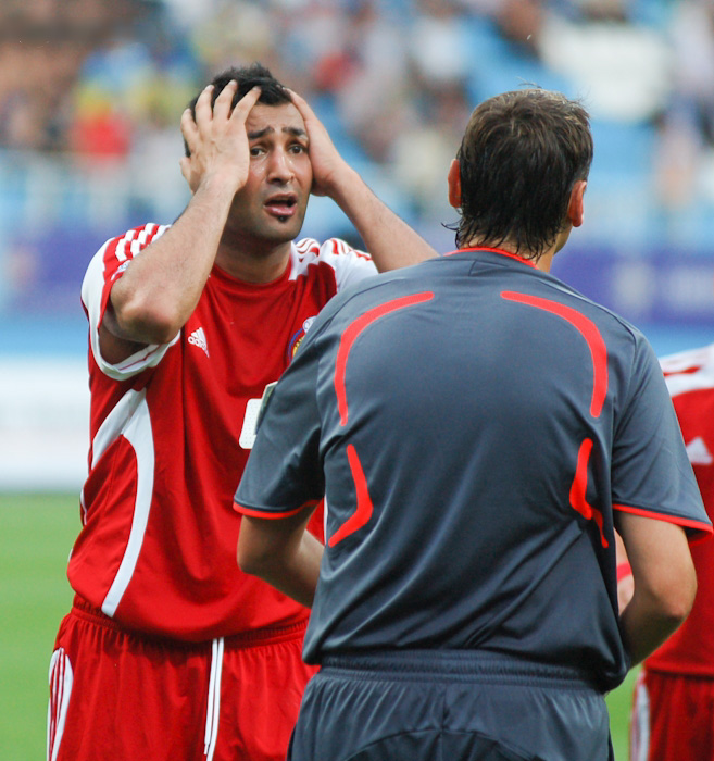 Óscar Sonejee, Andorran footballer, during the game Ukraine vs Andorra